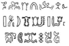 Tracing of rongorongo text Y, side b